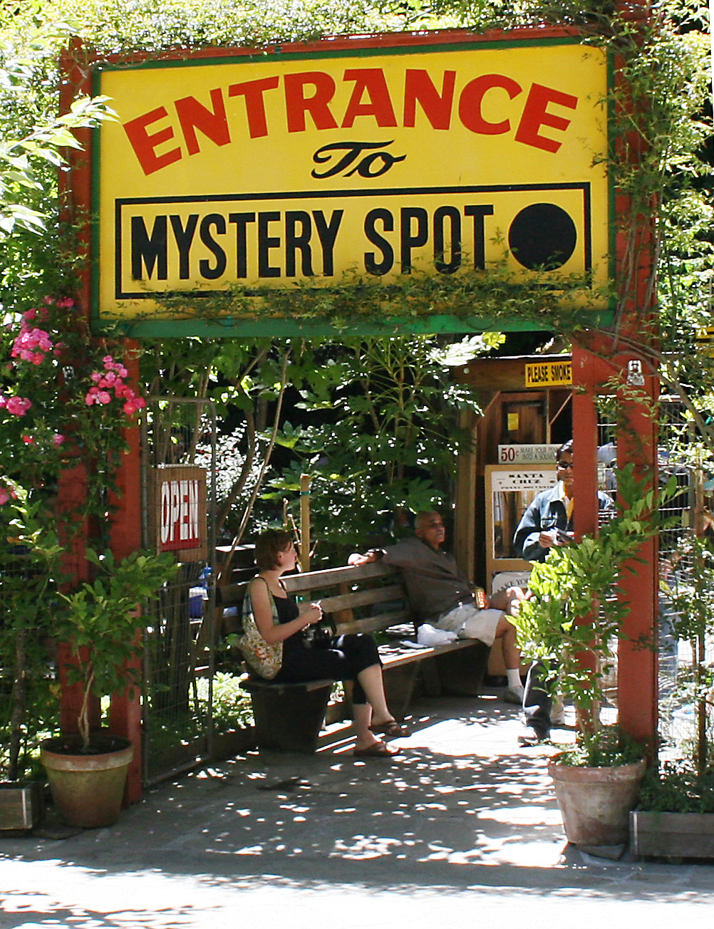 Mystery spot entrance